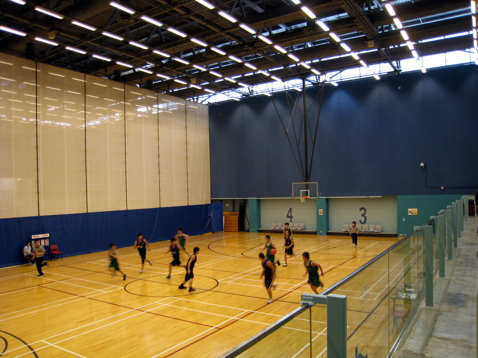 Tsing Yi Municipal Services Building Basketball Court